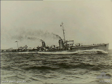 AWM Caption: At Sea. HMAS Success, a destroyer handed over to the Royal Australian Navy in June 1919 arriving in April 1920. It was sold and scrapped in 1937.